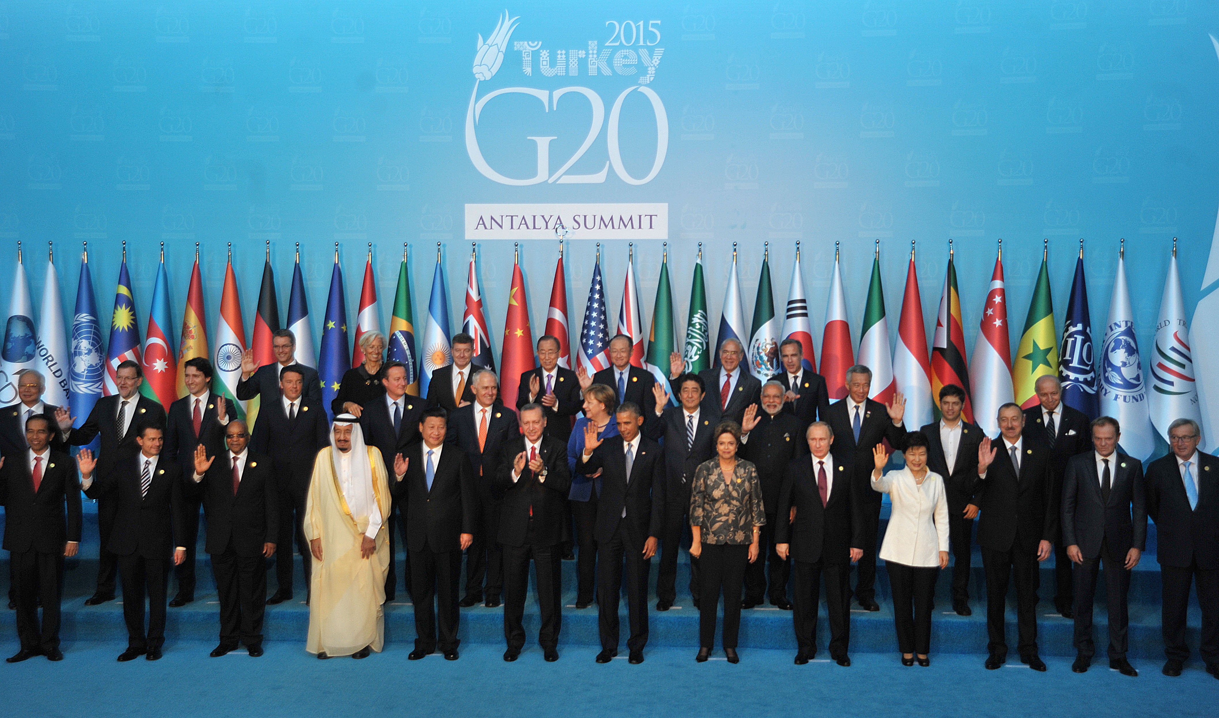 Participants at the 2015 G20 Summit